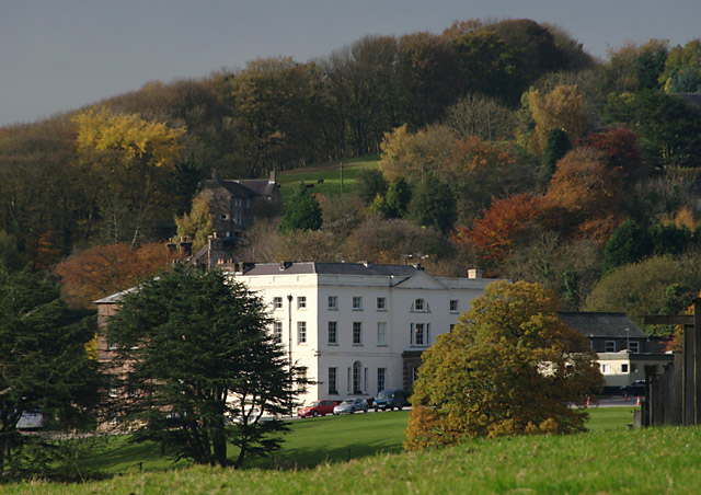 Alderwasley Hall Formerly the home of the Hurt family, Alderwasley Hall is now a school specialising in teaching children with speech and communication difficulties. The landscaped estate is particularly delightful in autumn.